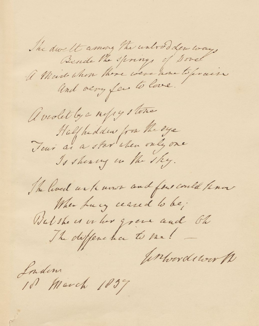 Manuscript of "She dwelt among the untrodden ways", a poem by William Wordsworth (1770-1850), dated March 1837. From an autograph album compiled by Emma Isola Moxon (1809-1891). MS Eng 601.66 (25), Houghton Library, Harvard University